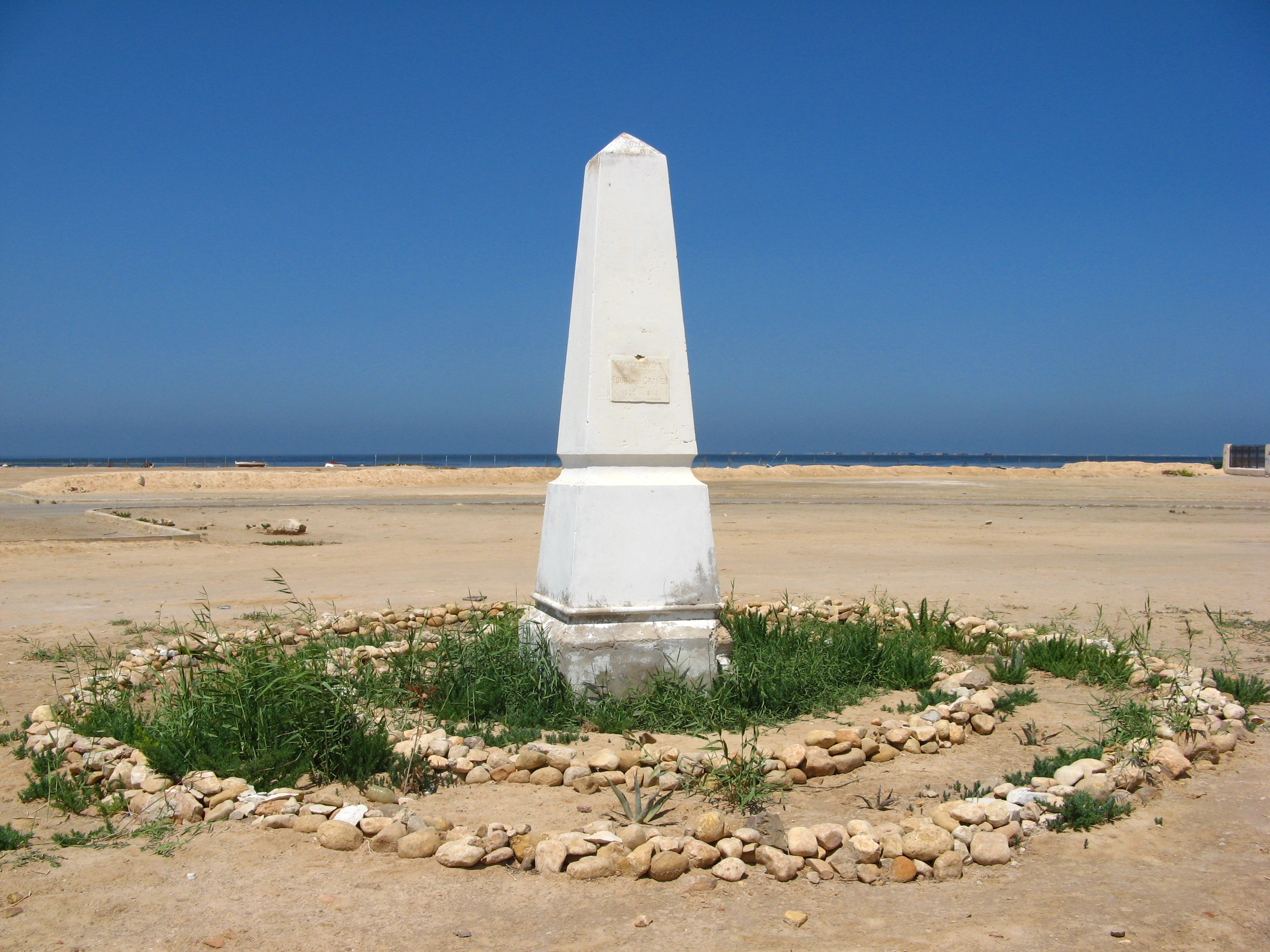 Monument built in the place of Borj Errous or Borj El Jamajem (skulls tower) near Borj Ghazi Mustapha, Houmt Souk, Djerba, Tunisia